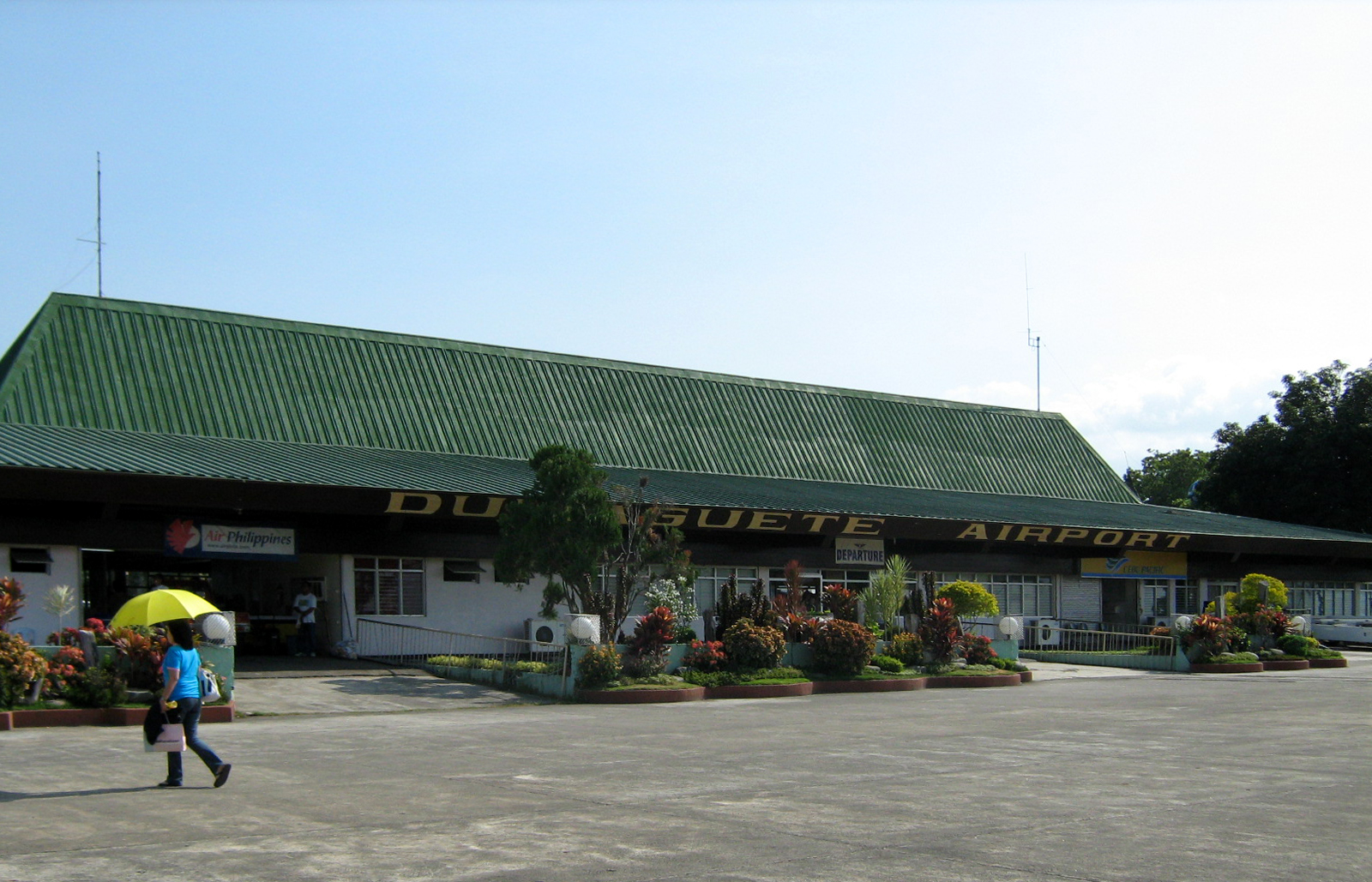 The passenger terminal building of Dumaguete Airport in Sibulan, Negros Oriental, as seen from the runway.